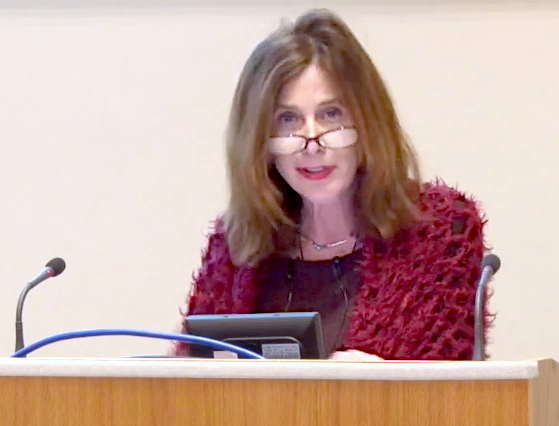 Chris Kraus giving a reading entitled "Art Writing" at the Royal College of Art in 2015.